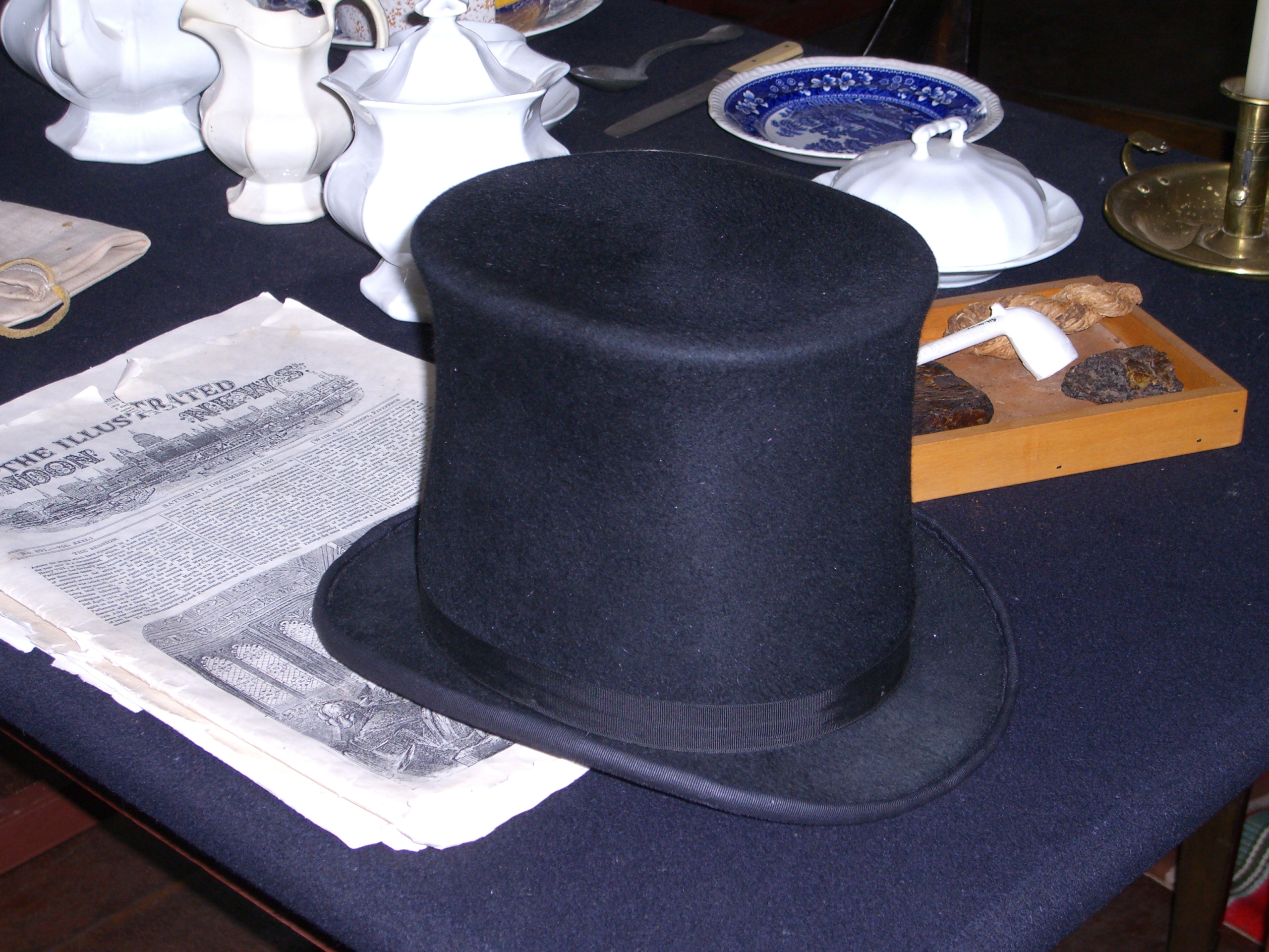 A felted wool hat reproduction inside the Big House at Fort Langley National Historic Site, Canada